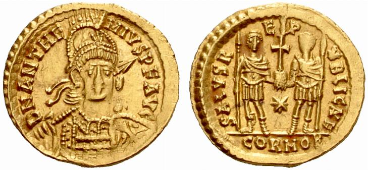 Anthemius, 467-472, Solidus circa 468, AV 4.45 g. D N ANTHE – MIVS P F AVG Helmeted, pearl-diademed and cuirassed bust three-quarters facing, holding spear and shield with horseman and enemy motif. Rev. SALVS R – EI P – VBLICAE Two emperors, in military attire, standing facing, holding spears and supporting a globe surmounted by cross between them; in centre field, star. In exergue, CORMOB. C 7. RIC 2825. Depeyrot 63/1. LRC 918 var. Lacam pl. 27, 71.